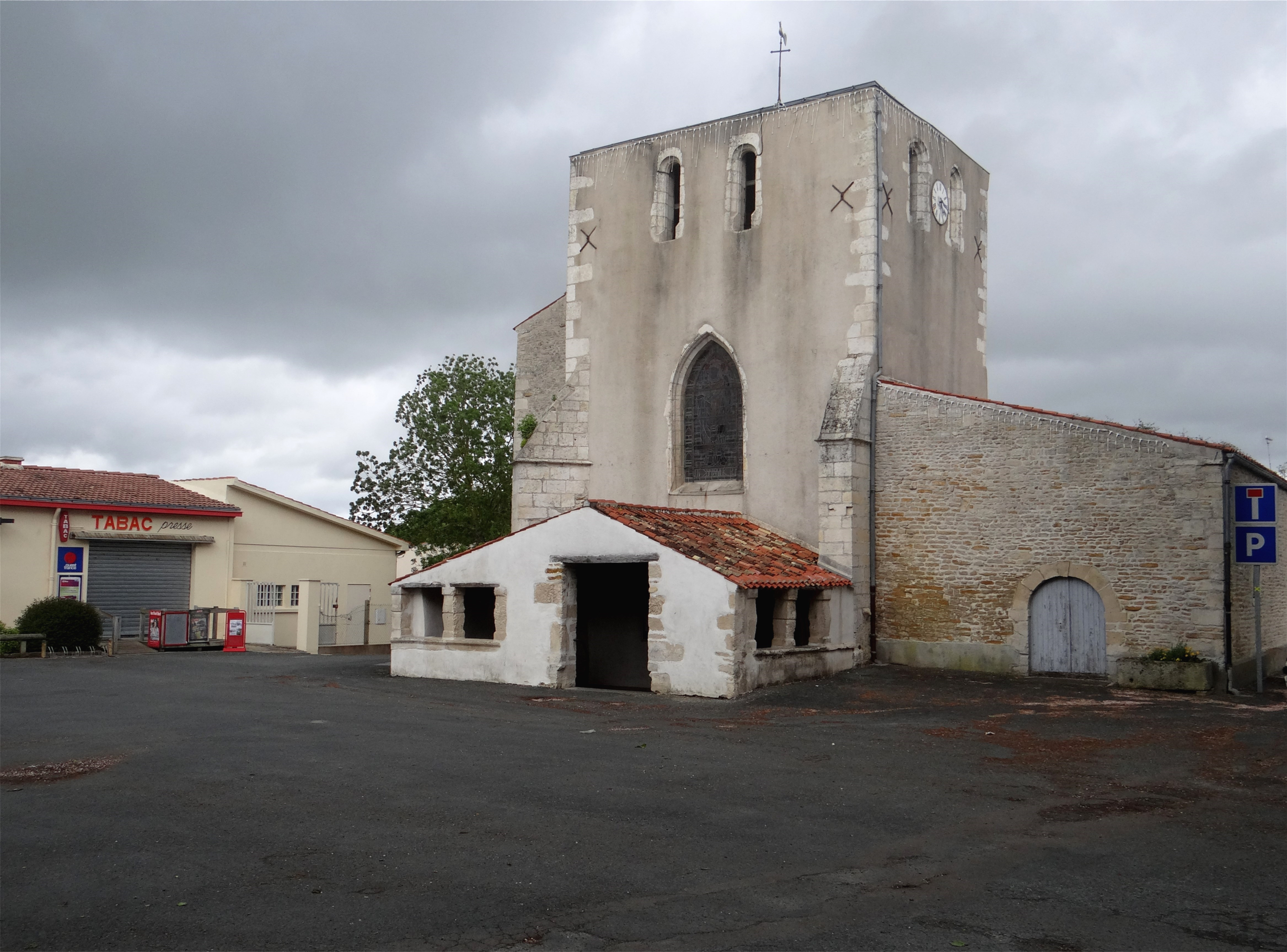 Church Champagné-les-Marais, Vendée, France.